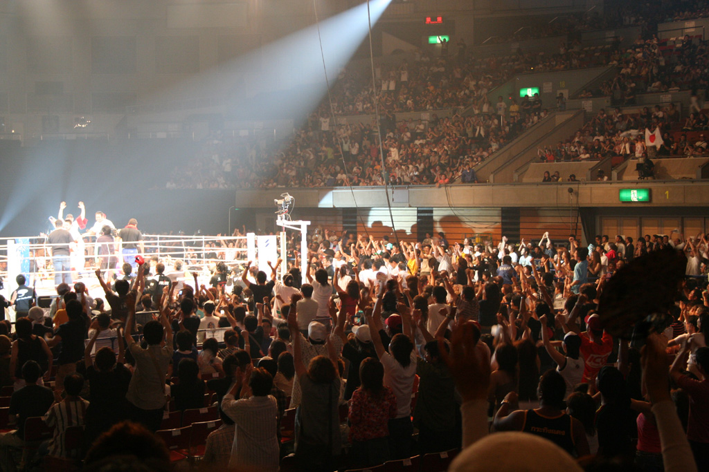 Pride BUSHIDO - july 18 2005 - Nagoya City Sports Complex - Japan